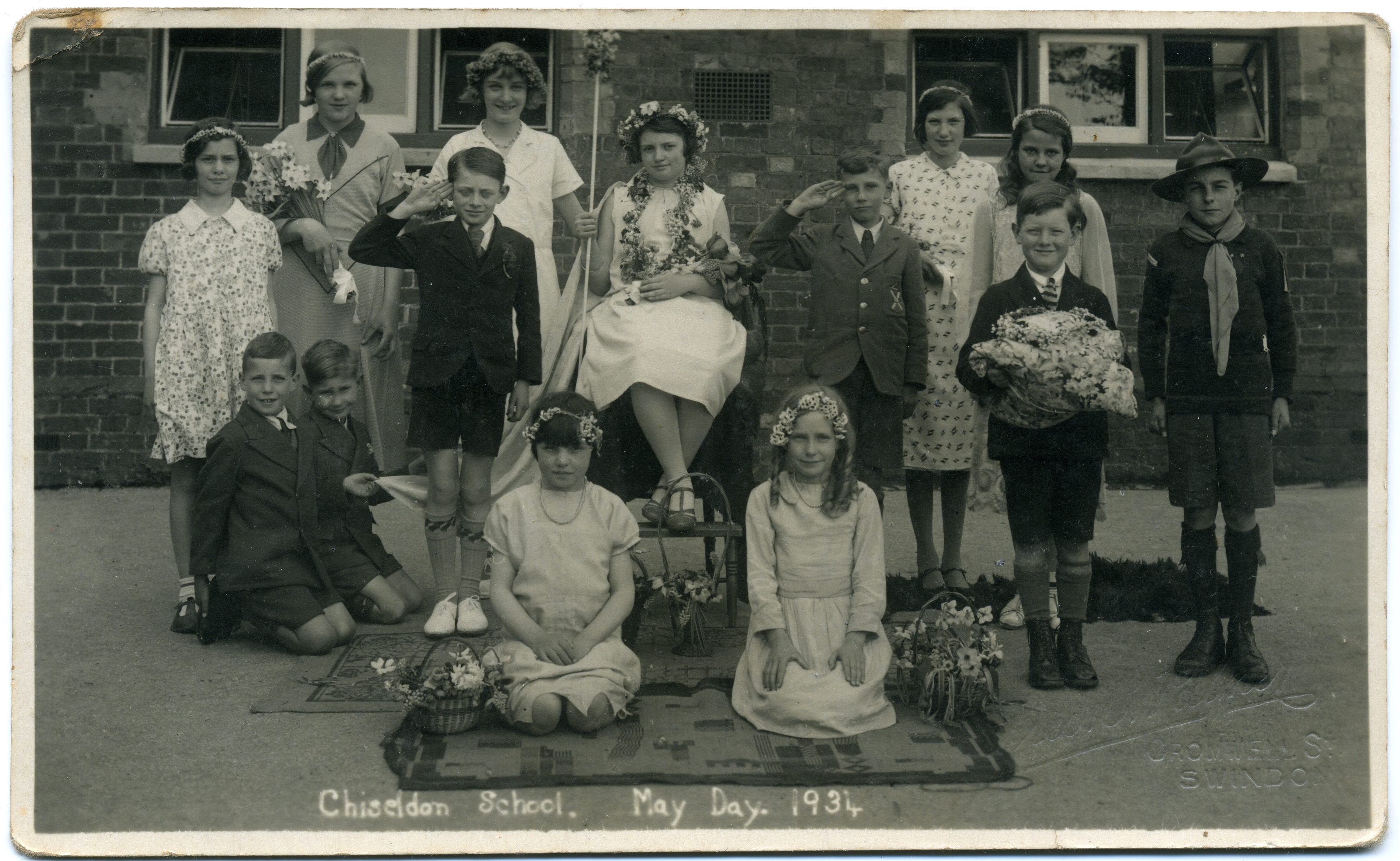 1934 postcard of Chiseldon School, near Swindon, Wiltshire, England, showing a group of school children dressed for May Day celebrations. It is one of a set of seven postcards from the 1930s, showing children from the same school on May Day. There is a May Queen; also Brownies, Cubs, Scouts and Girl Guides. The photographer was Fred C. Palmer of Tower Studio, Herne Bay, Kent ca.1905-1920, and of 6 Cromwell Street, Swindon ca.1920-1936. He is believed to have died 1936-1939. This print has darkened with age, but it would be inappropriate to adjust the brightness because detail, e.g. on white dresses, would be lost. Border The remaining border of this image is important for researchers of this photographer. Some photographers trimmed their images more than others, and Palmer has a reputation for producing smaller postcards than other early 20th century UK photographers. He took his own photos, developed them in-house onto postcard-backed photographic paper and trimmed them himself. It is worth adding that during hand-developing the border is actively masked with equipment which both crops the picture and causes the white frame or border to appear on the paper. This frame is part of the design and is one of the reasons why the quality of Palmer's work is so interesting, and why there is an article and category for him on English Wiki. Researchers need to see exactly where the edge of the postcard is. Thank you for taking the time to read this.